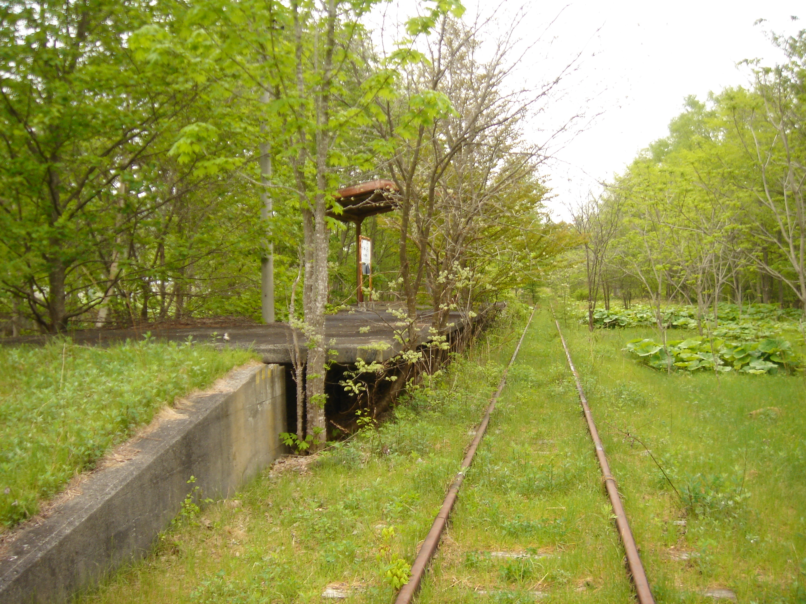 Former Kami-Charo Station on Shiranuka Line, May 2009